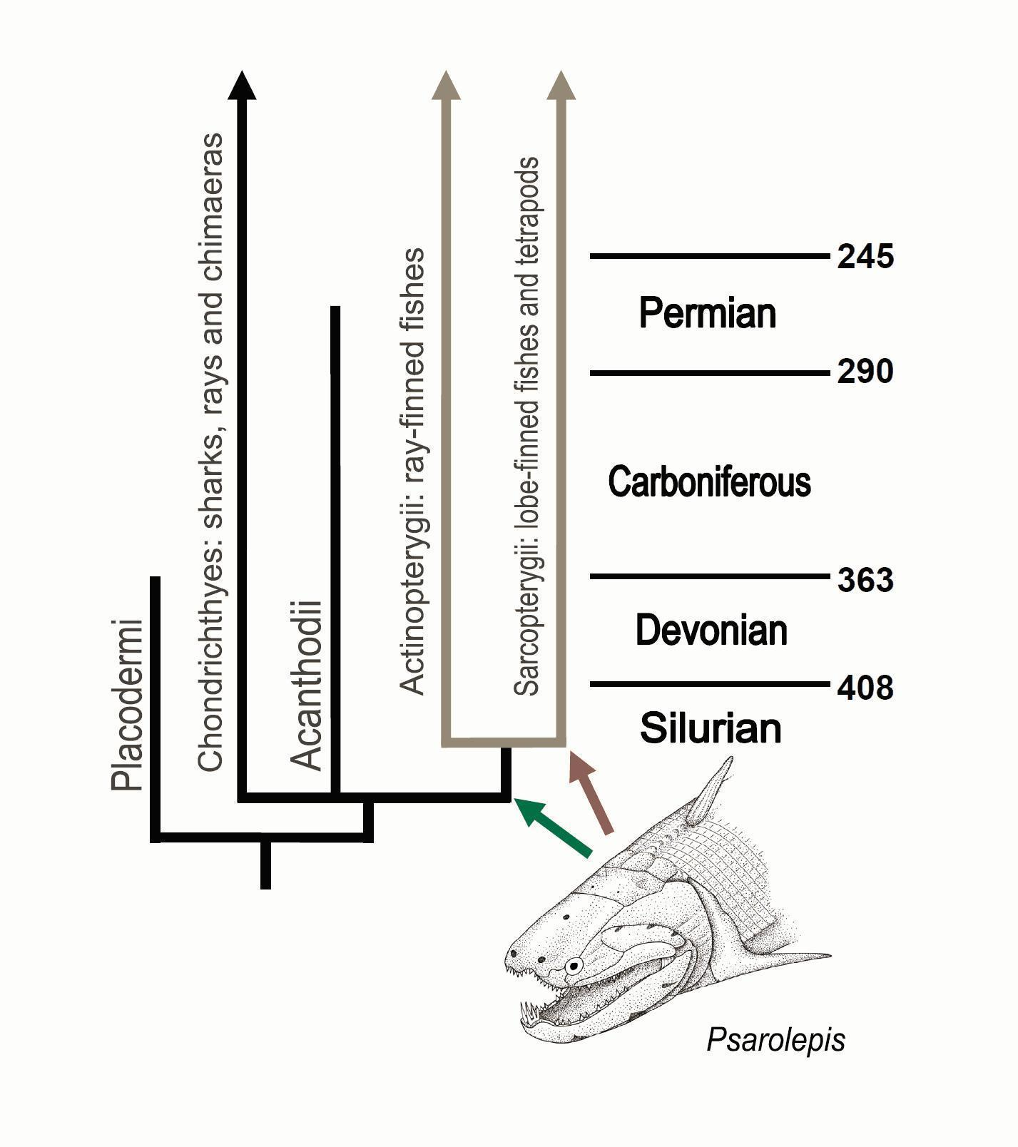 Phylogenetic analysis and the incongruous distribution of Psarolepis characters.